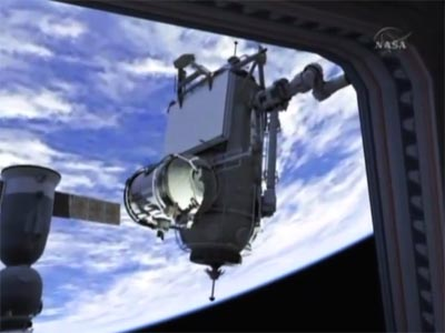 Computer simulation of MRM-1 Rassvet during installation